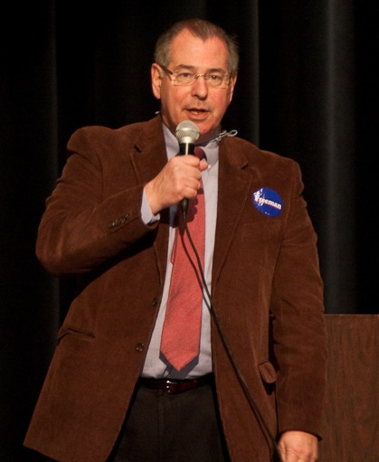 Hennepin County Attorney Mike Freeman